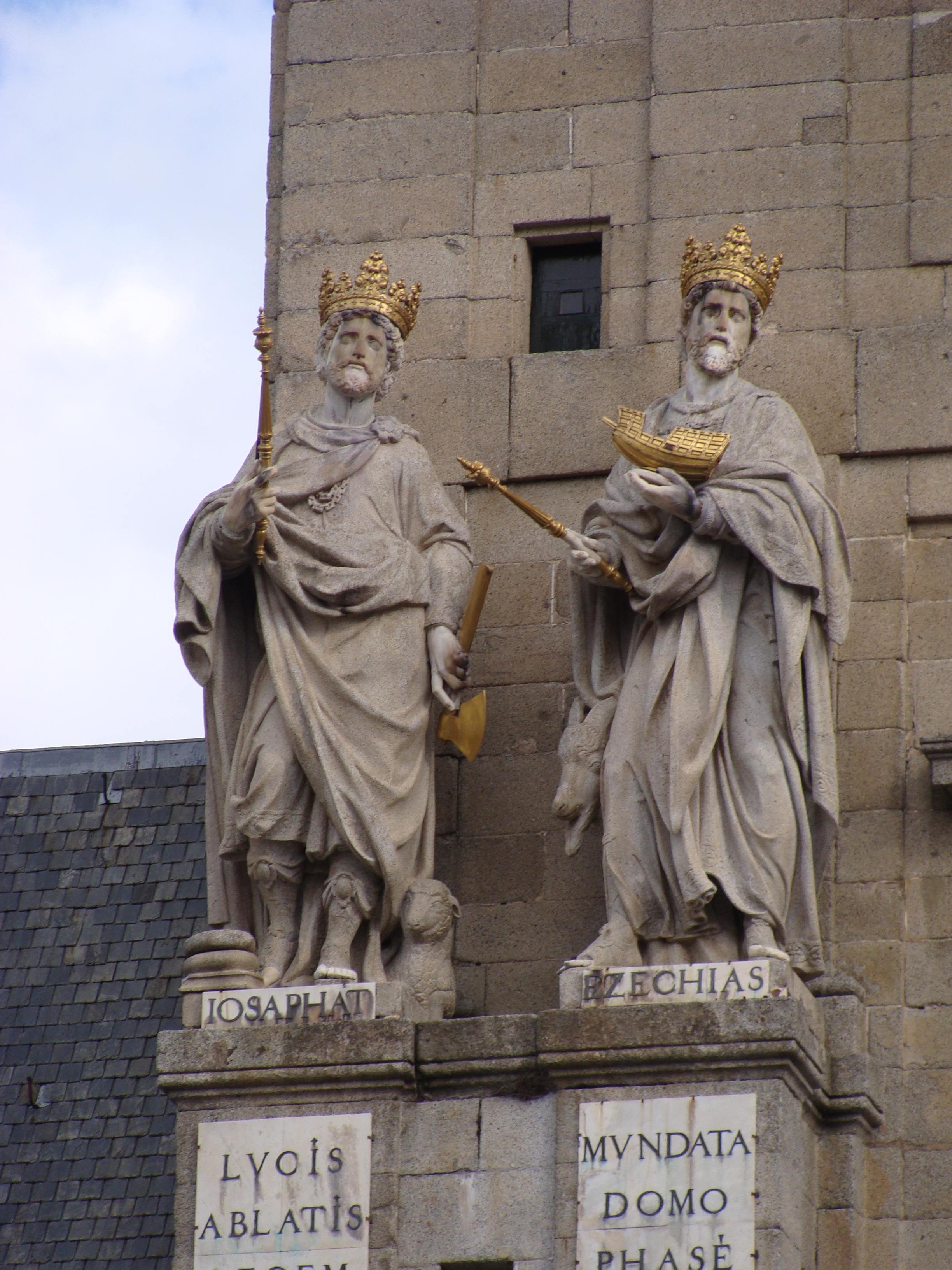 Monastery of San Lorenzo de El Escorial in Comunidad de Madrid, Spain.